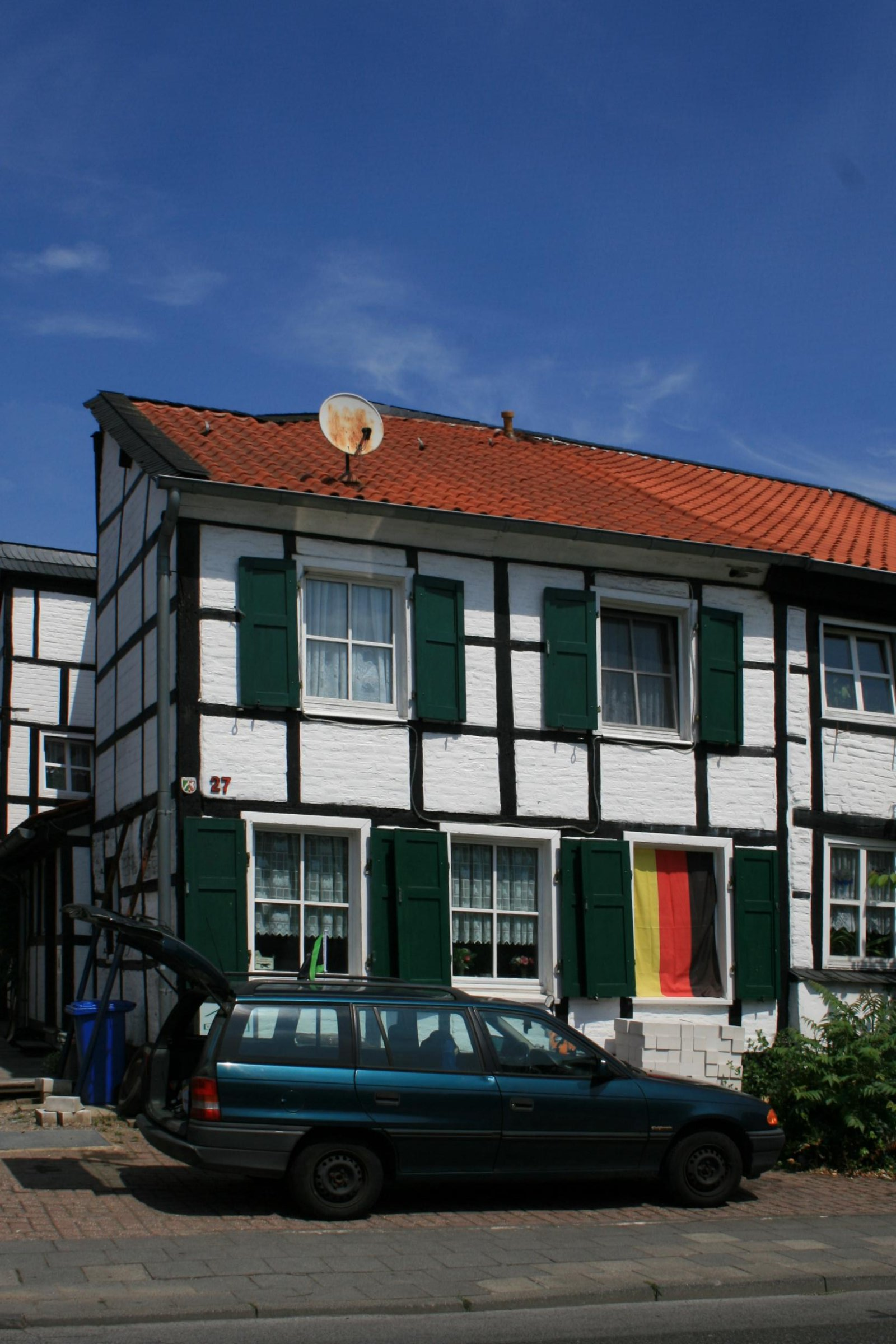 Cultural heritage monument No. U 005 in Mönchengladbach